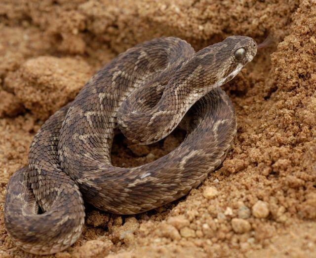 Echis carinatus , Bannerghatta, India